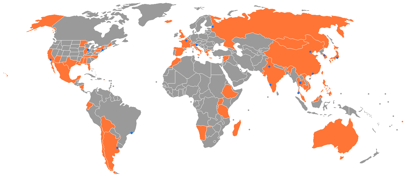 Map of locations visited on Bizarre Foods with Andrew Zimmern